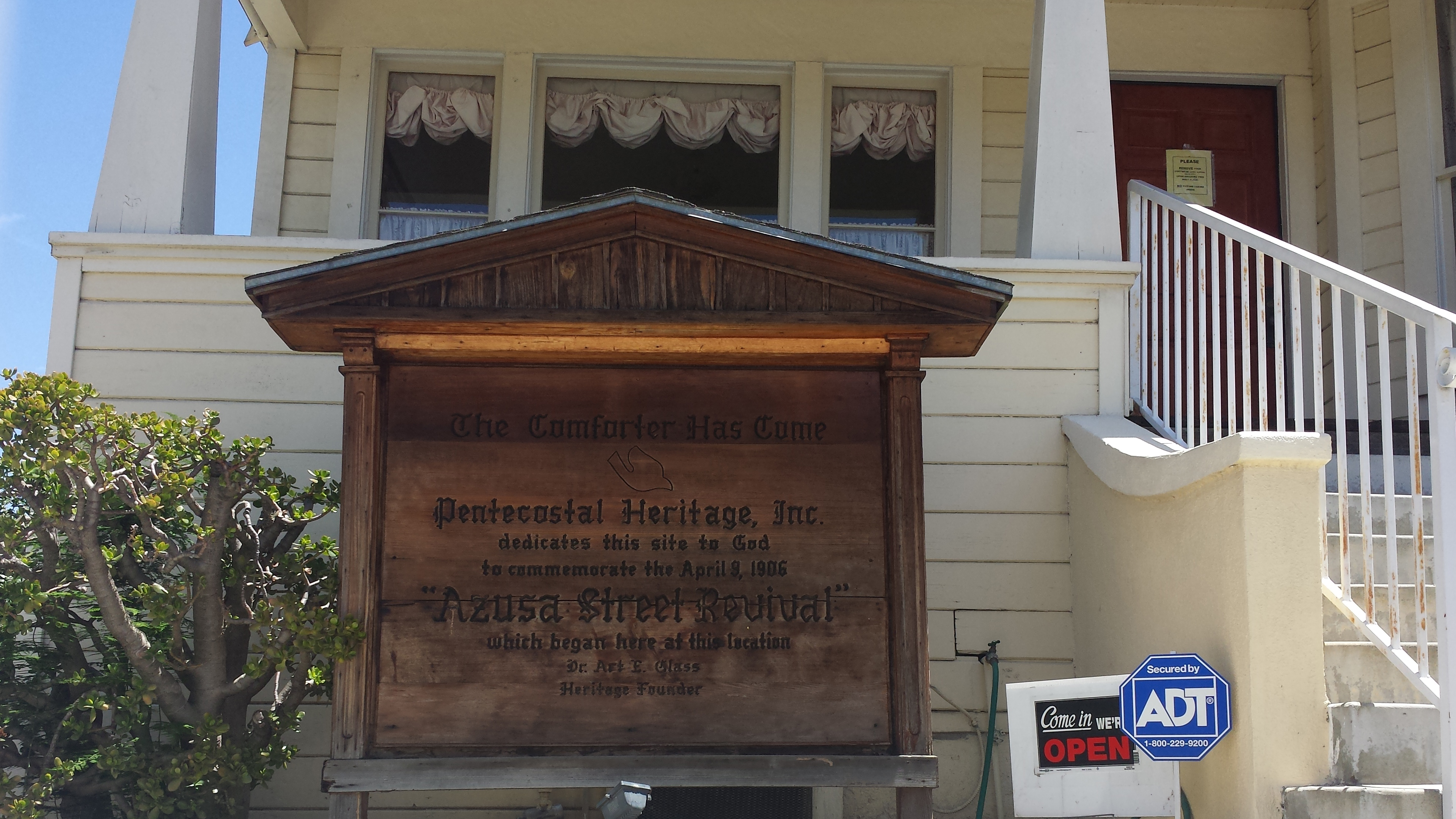 The front of the Bonnie Brae house where William Seymour held Bible studies before the revival meetings started at Azusa Street.